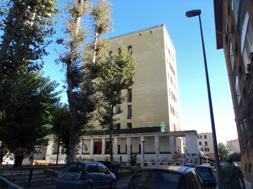 Former Quarticciolo police station in Rome, Italy . The building is currently occupied by homeless people.